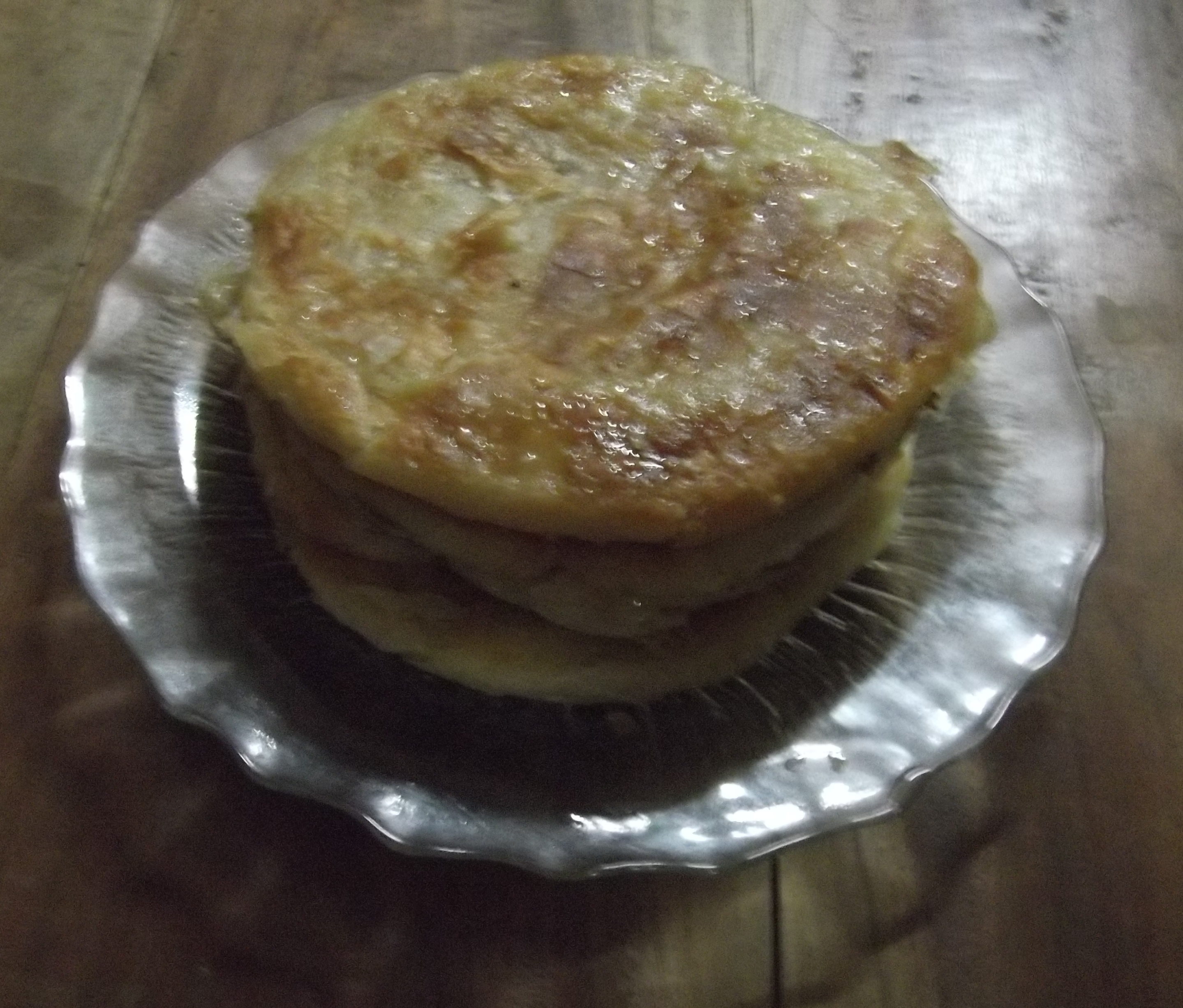 Sweet Bakorkhani of Chittagong